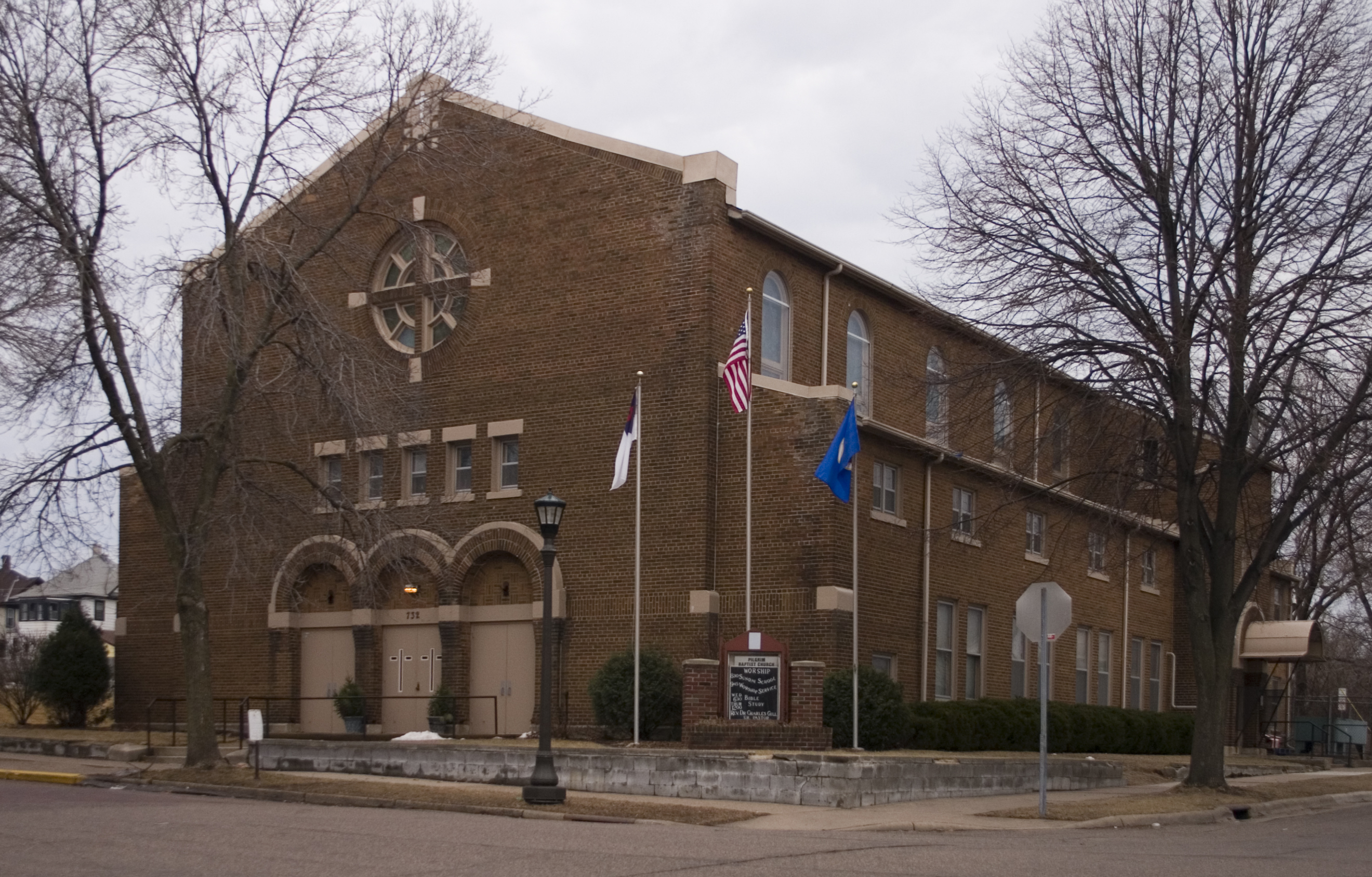 Pilgrim Baptist Church was added to the National Register of Historic Place on April 16, 1991. It is located at 732 Central Avenue West, Saint Paul, MN